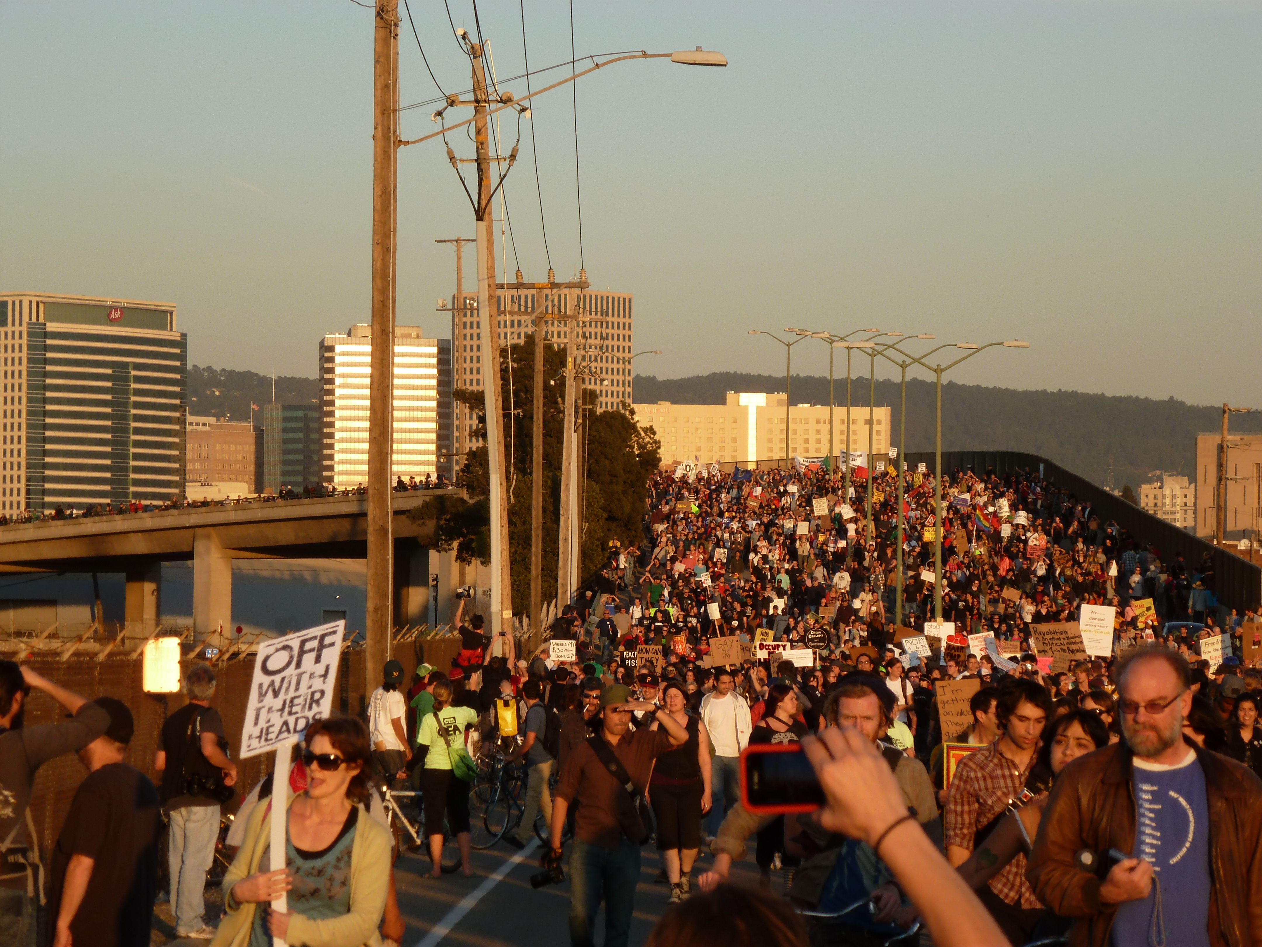 The second of two marches from downtown Oakland to the Port of Oakland that took place on Nov. 2, 2011. The march was part of the city's general strike that day, voted for by the Occupy Oakland General Assembly on Oct. 26, 2011.